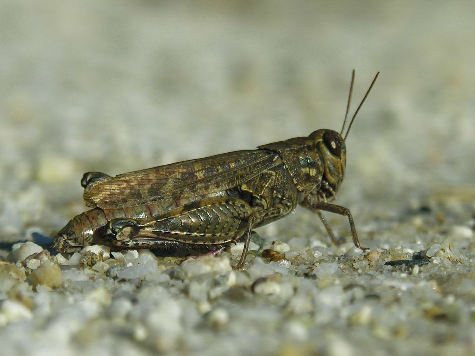 Calliptamus sp. Publish by= Luis Miguel Bugallo Sánchez.